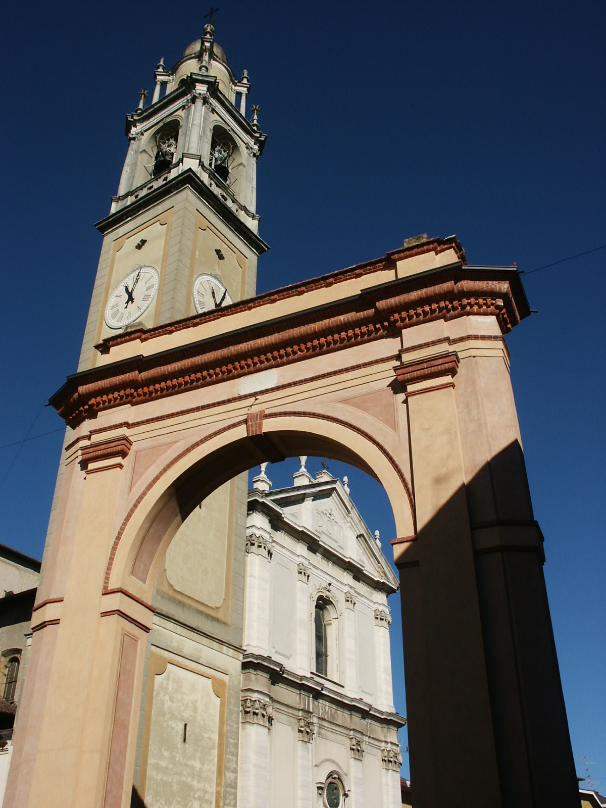 Arch of Peace and Saint Siro church (or Saint Syro). - City of Lomazzo, Province of Como, Bassa Comasca, Lombardy Region